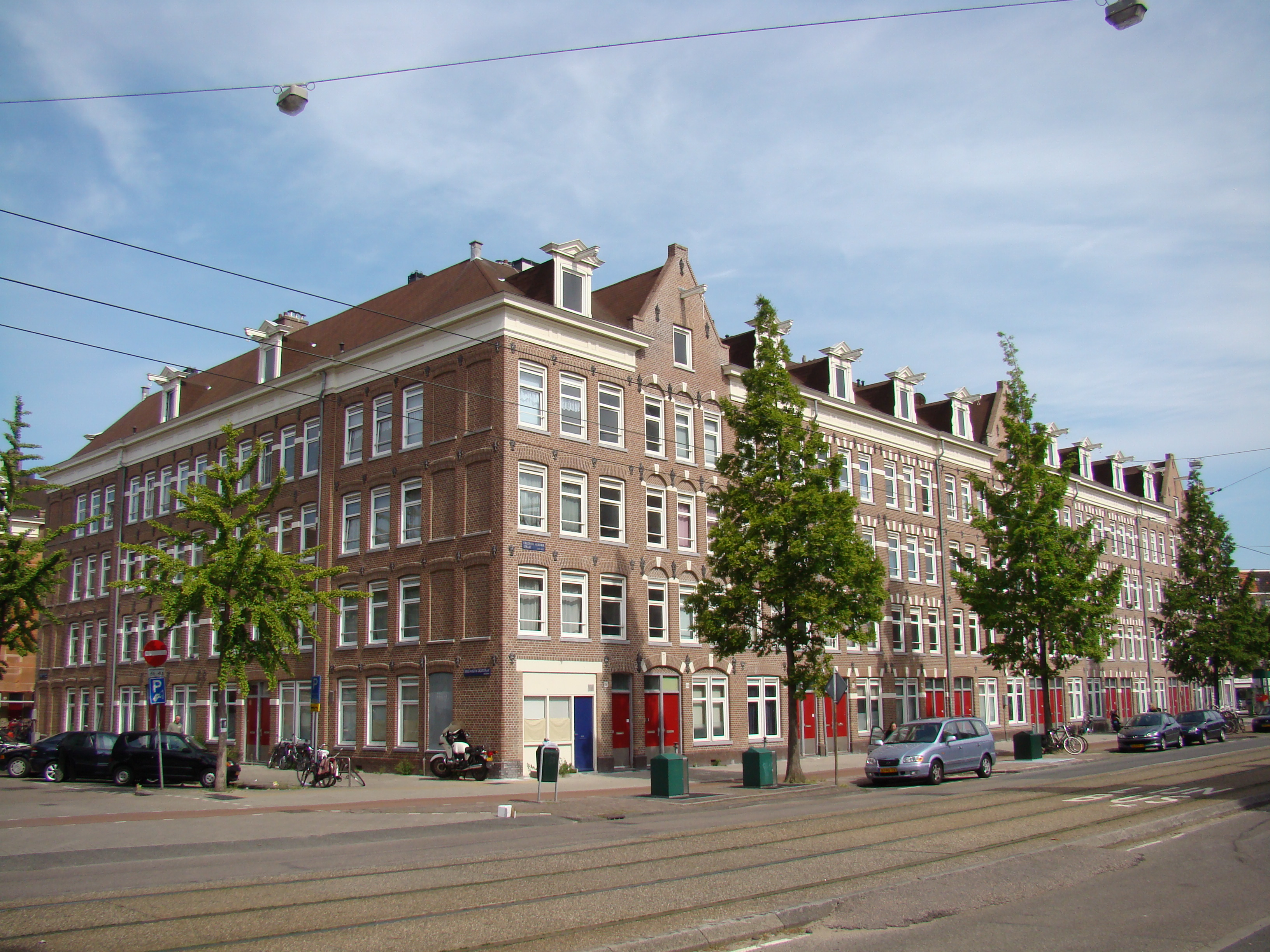 Frederik Hendrik street at Amsterdam, The Netherlnads